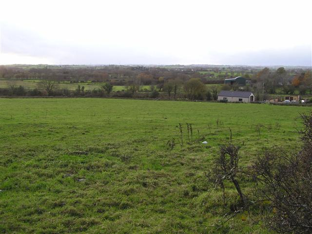 Derrytresk Townland The day is getting darker.